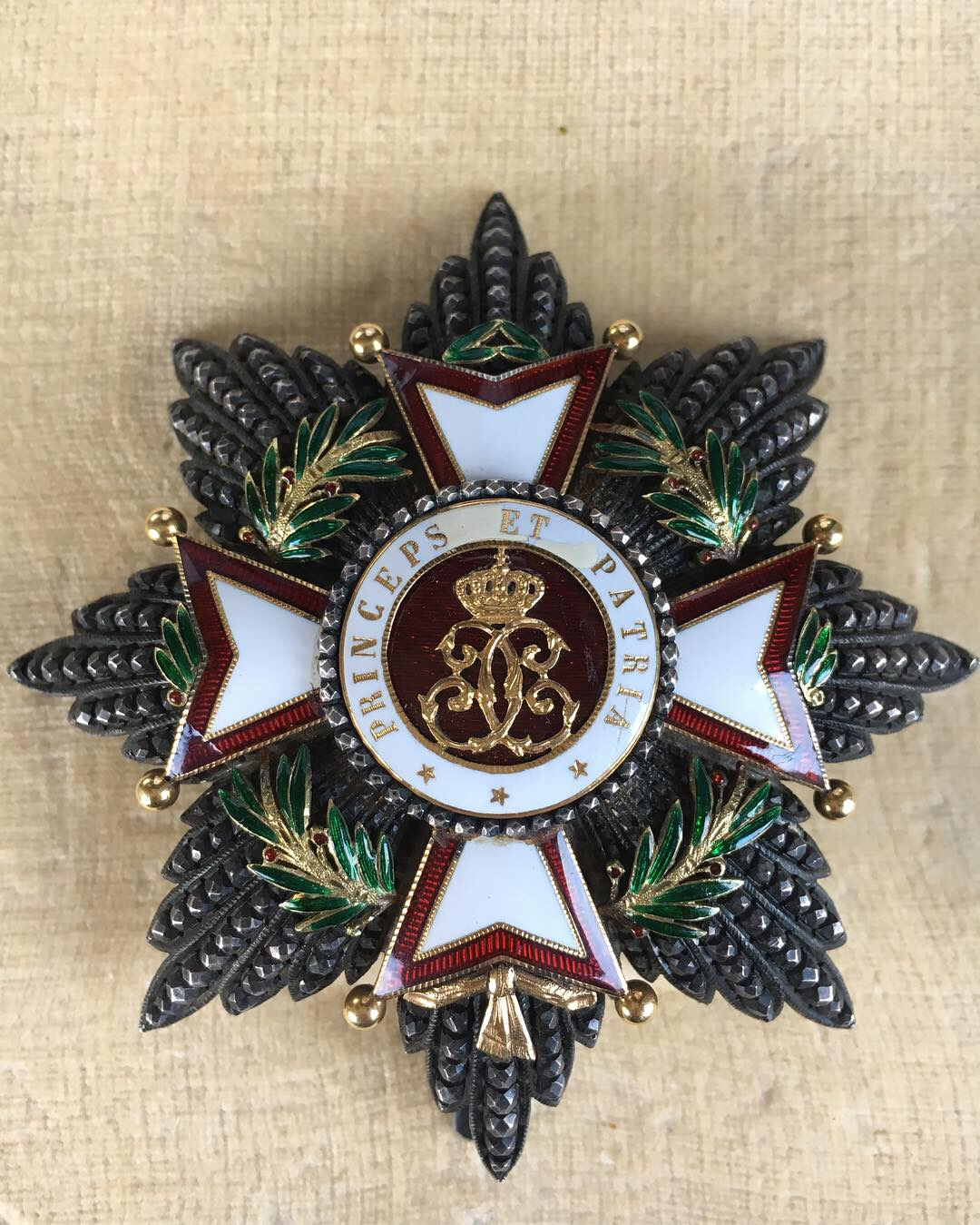 Star of the Order of Saint Charles, Principality of Monaco. AEA Collections.